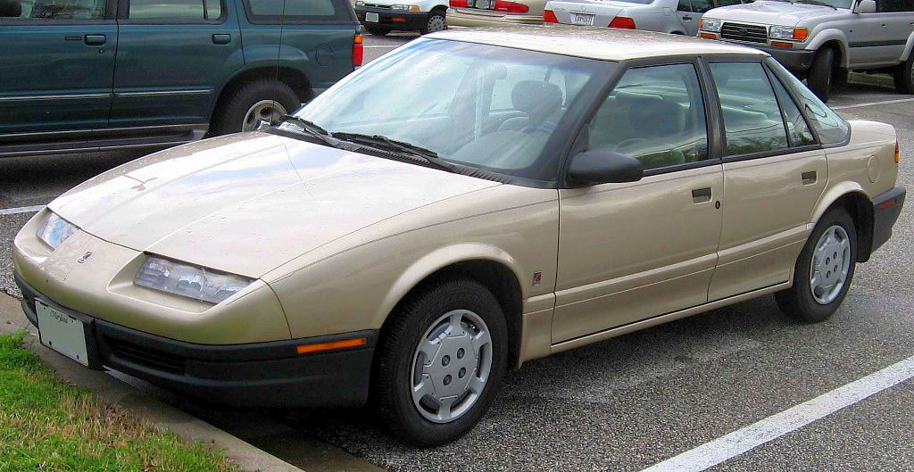 1991-1995 Saturn SL1 photographed in USA.